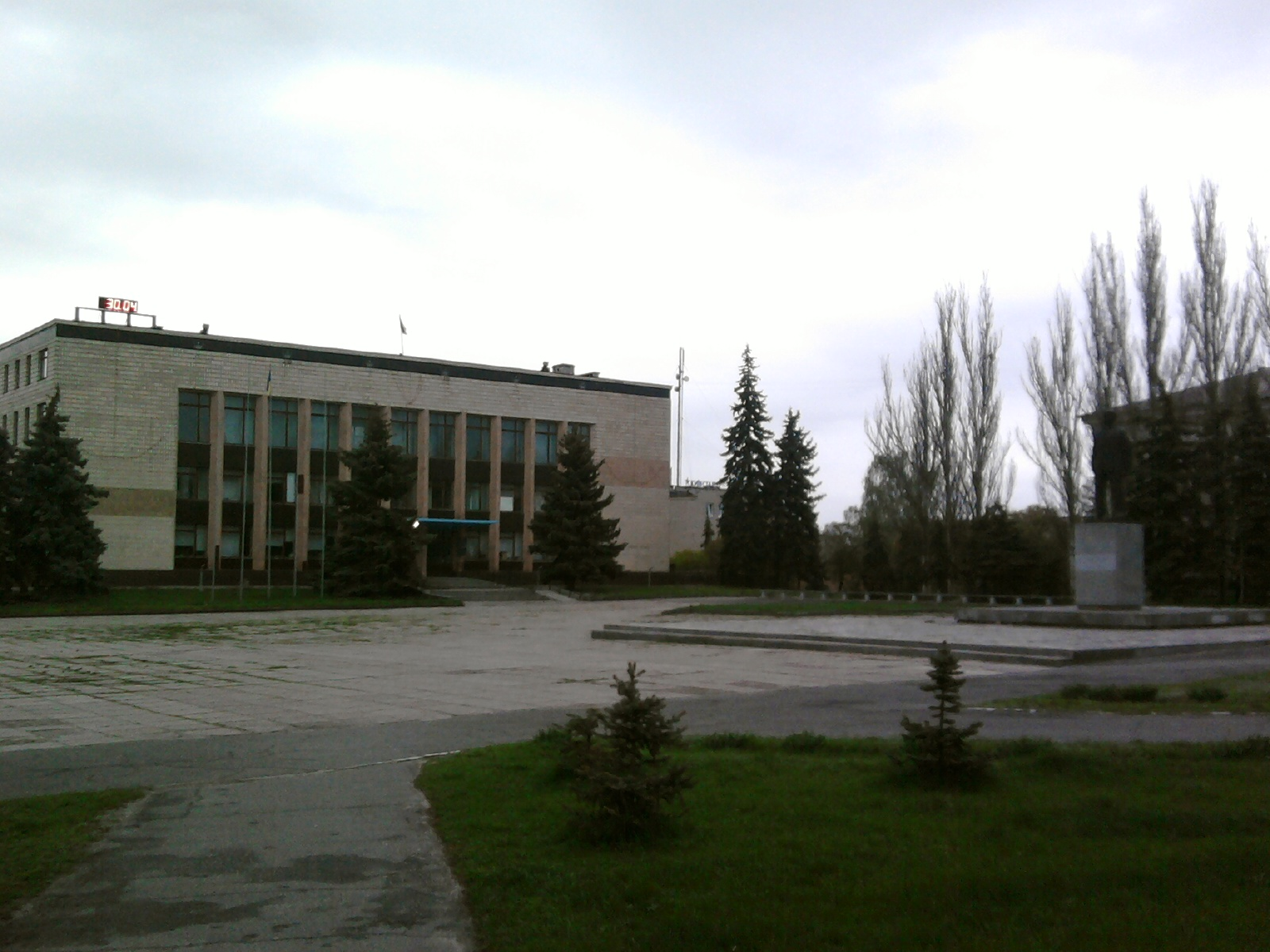 Izyum central square